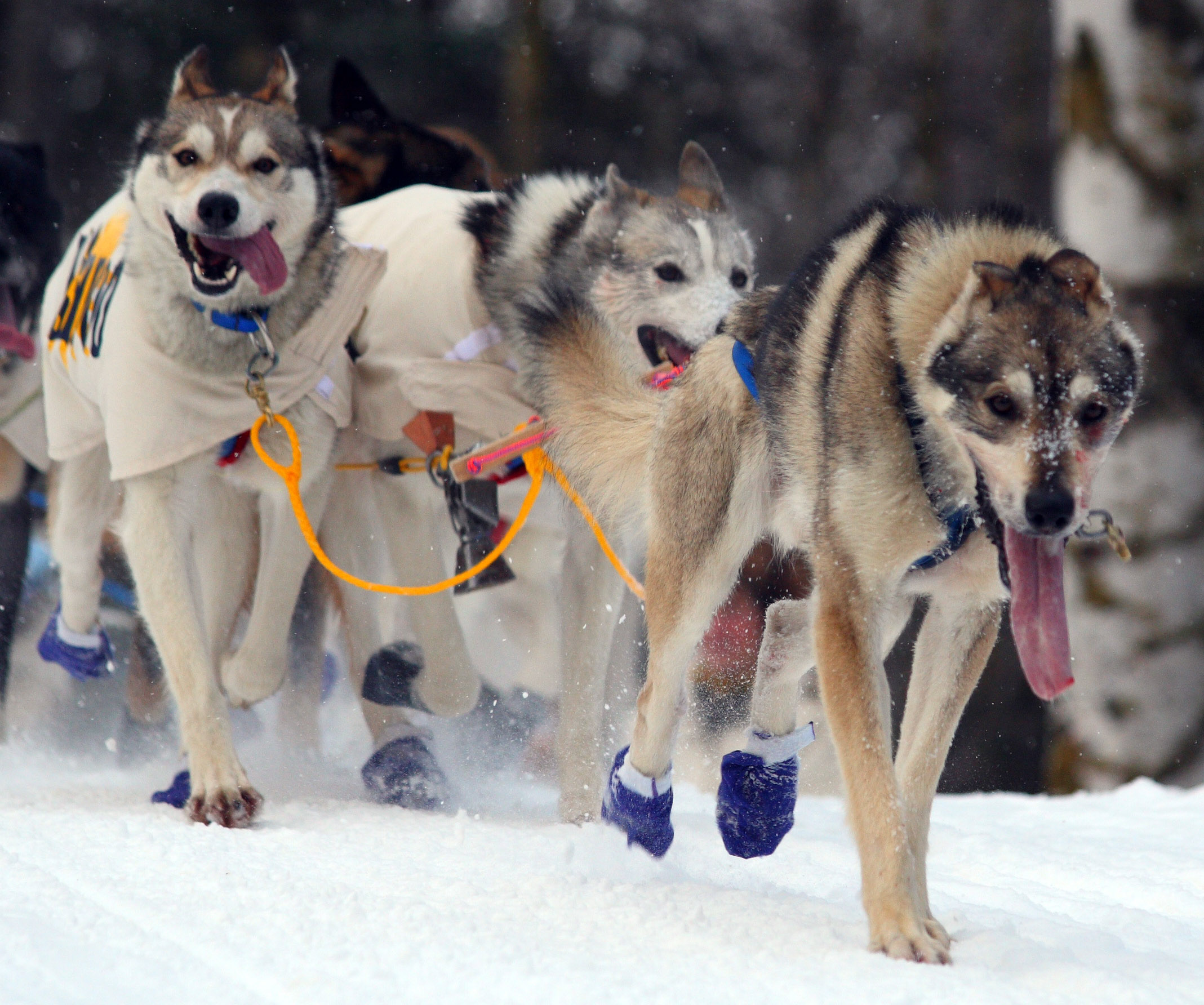 I took these photos on 6 March 2010 at the ceremonial start of the Iditarod dog sled race. The real start is from Willow. The Iditarod is known as "the last great race". It goes 1,100 miles from Willow to Nome through unforgiving terrain and downright nasty weather. I took these photos between Goose Lake and APU. What a great day to be an Alaskan!